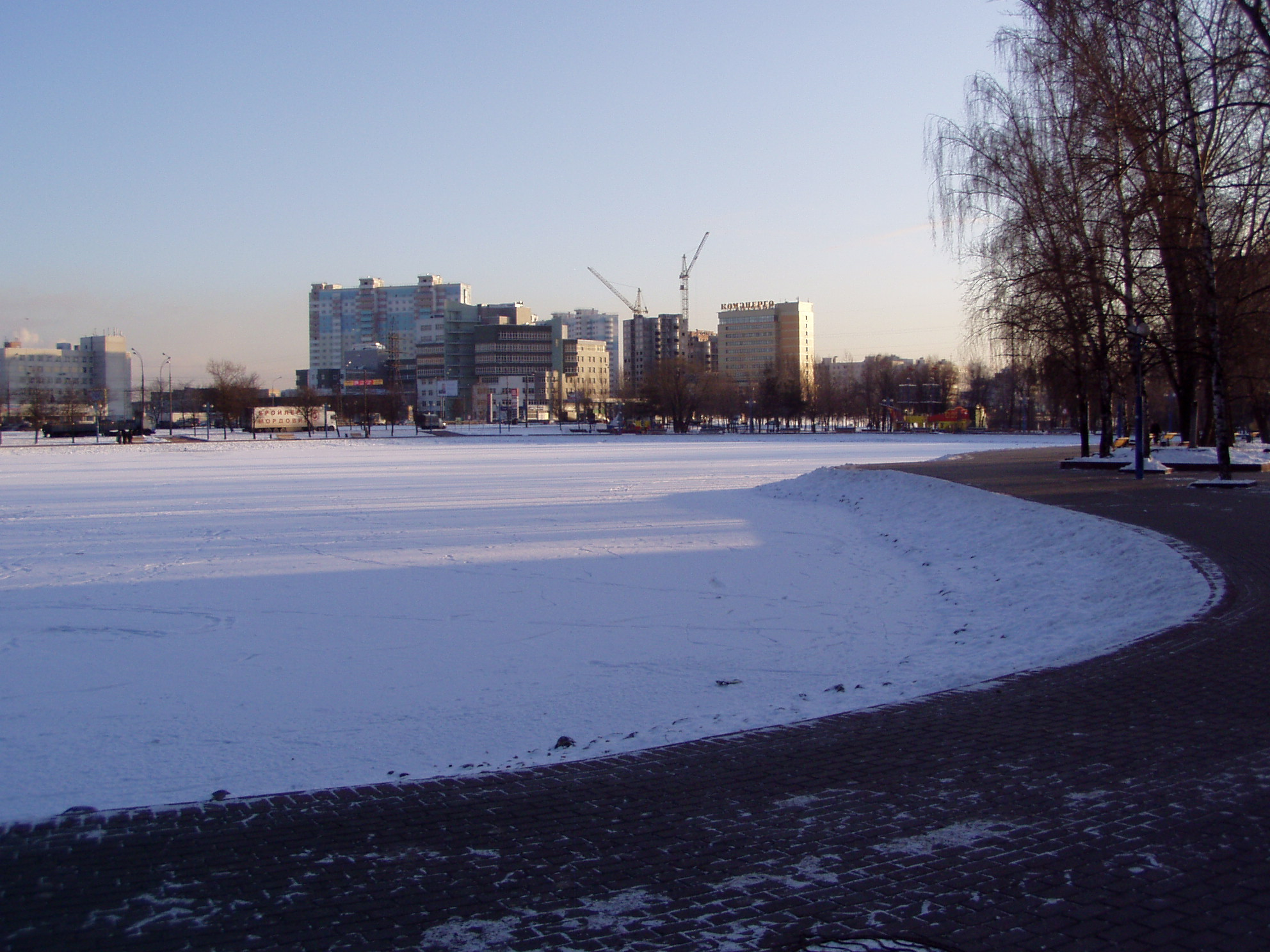 Altufyevo pond in Moscow, Russia. Winter 2009.